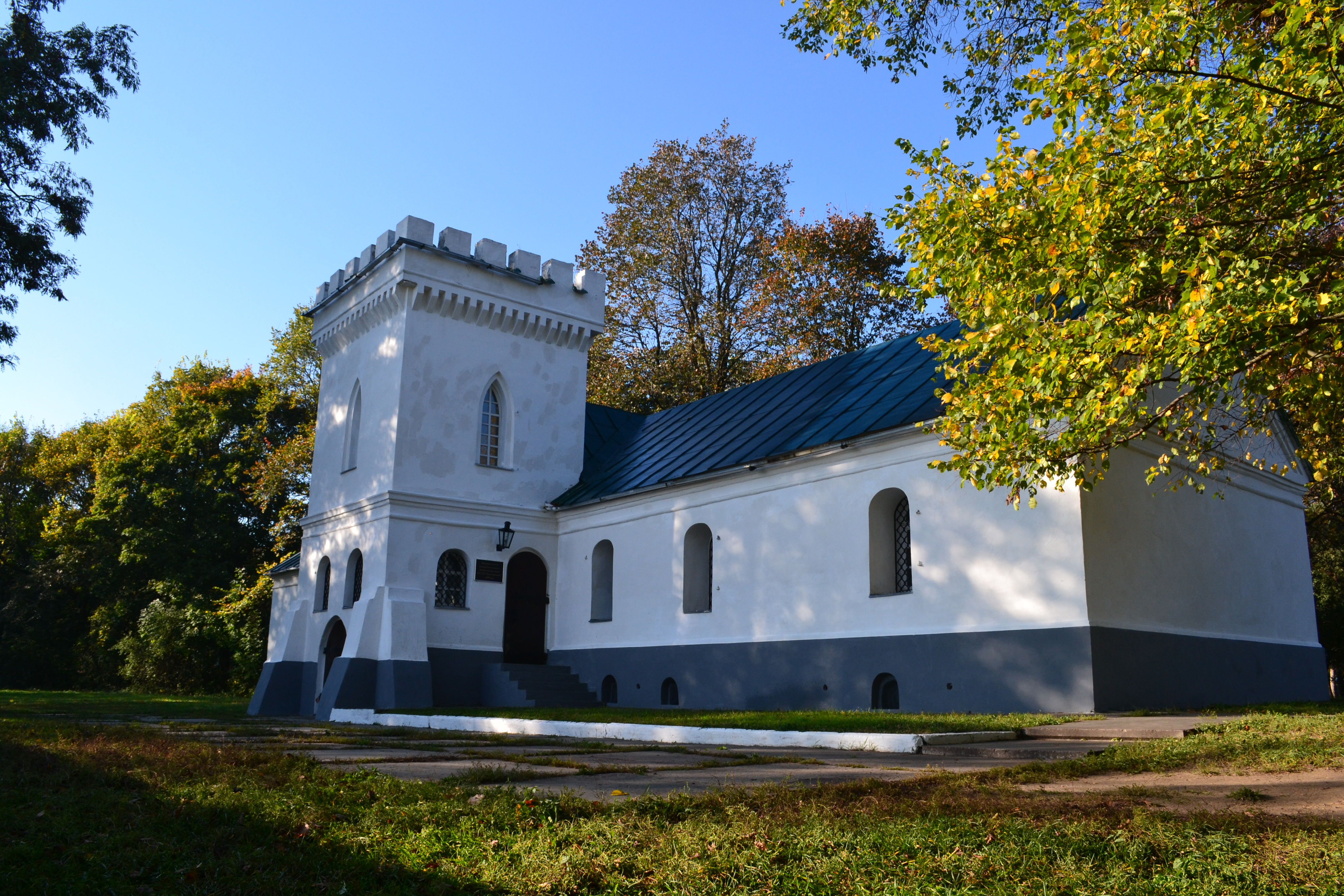 Lyzohub Kamenica in Sedniv